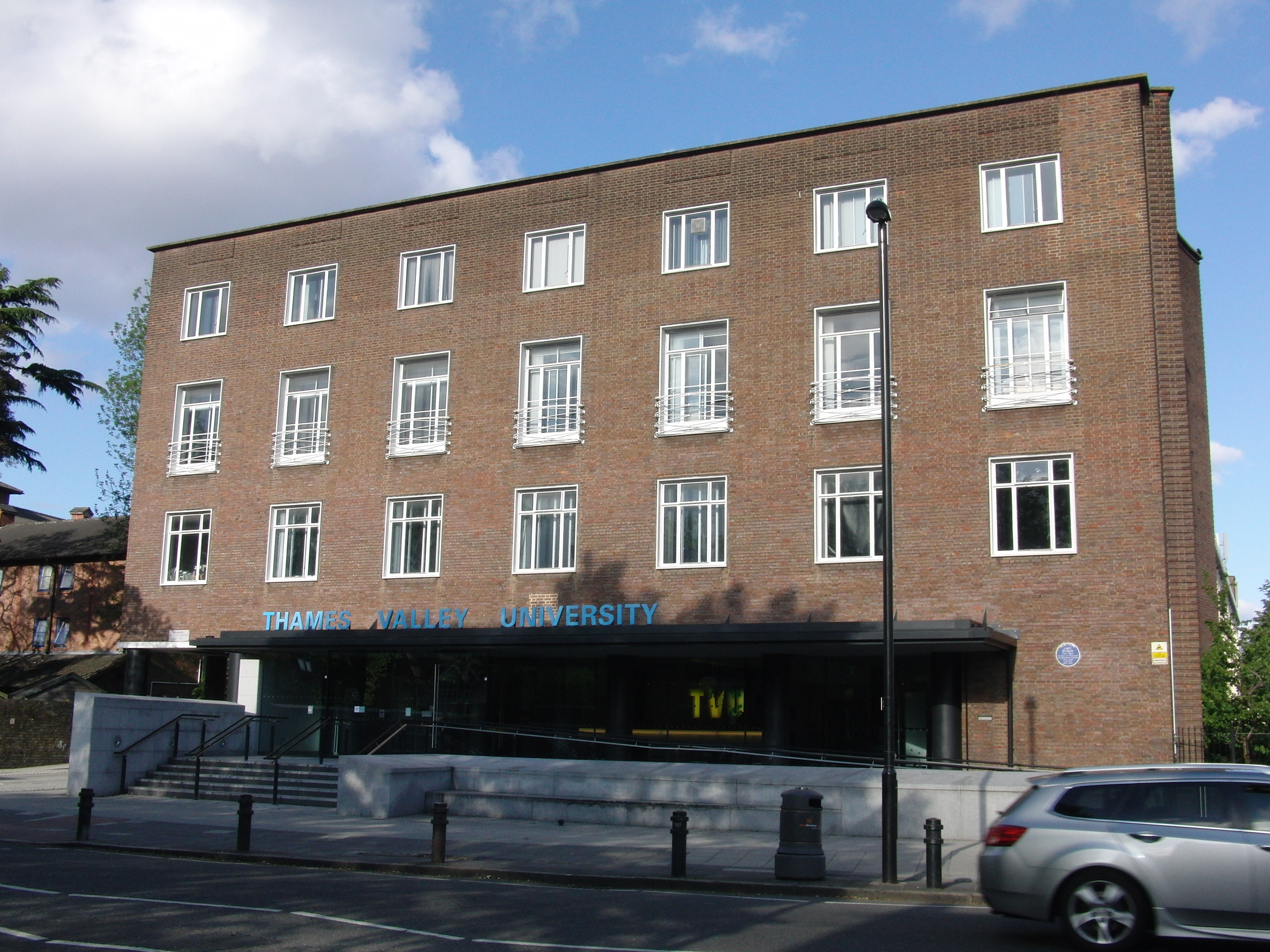 The Thames Valley University (TVU) campus at St Mary's Road, Ealing, London.